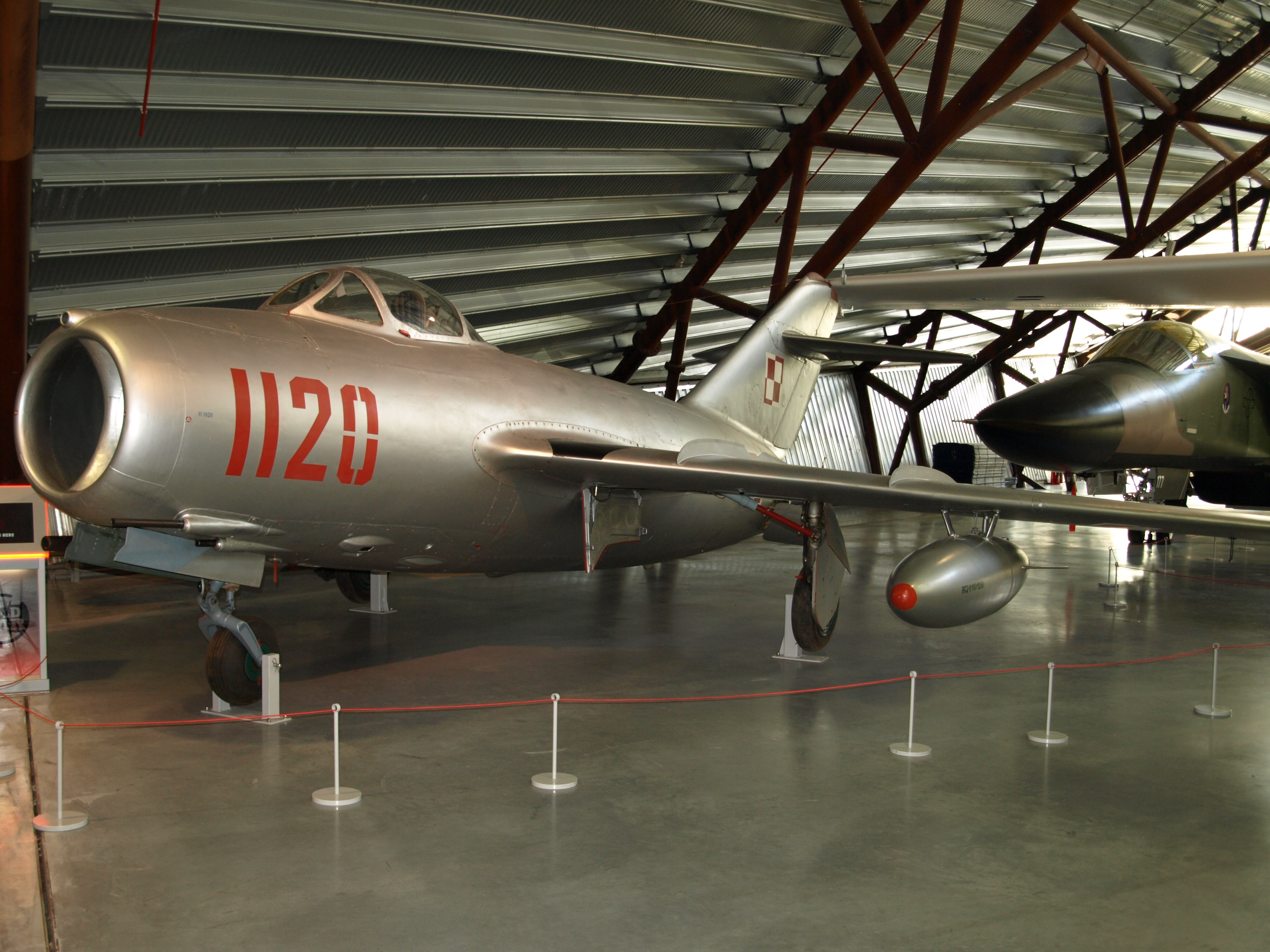 MiG-15 aircraft on display in the National Cold War exhibition at Royal Air Force Museum Cosford.